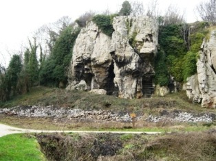 Creswell Crags Taken specifically for use in Wikipedia.